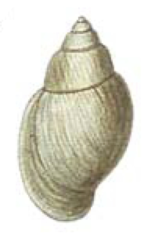 Drawing of abapertural view of a shell of Galba schirazensis from its original description. According to snail materials collected by von dem Busch in the locality of Shiraz, Iran.